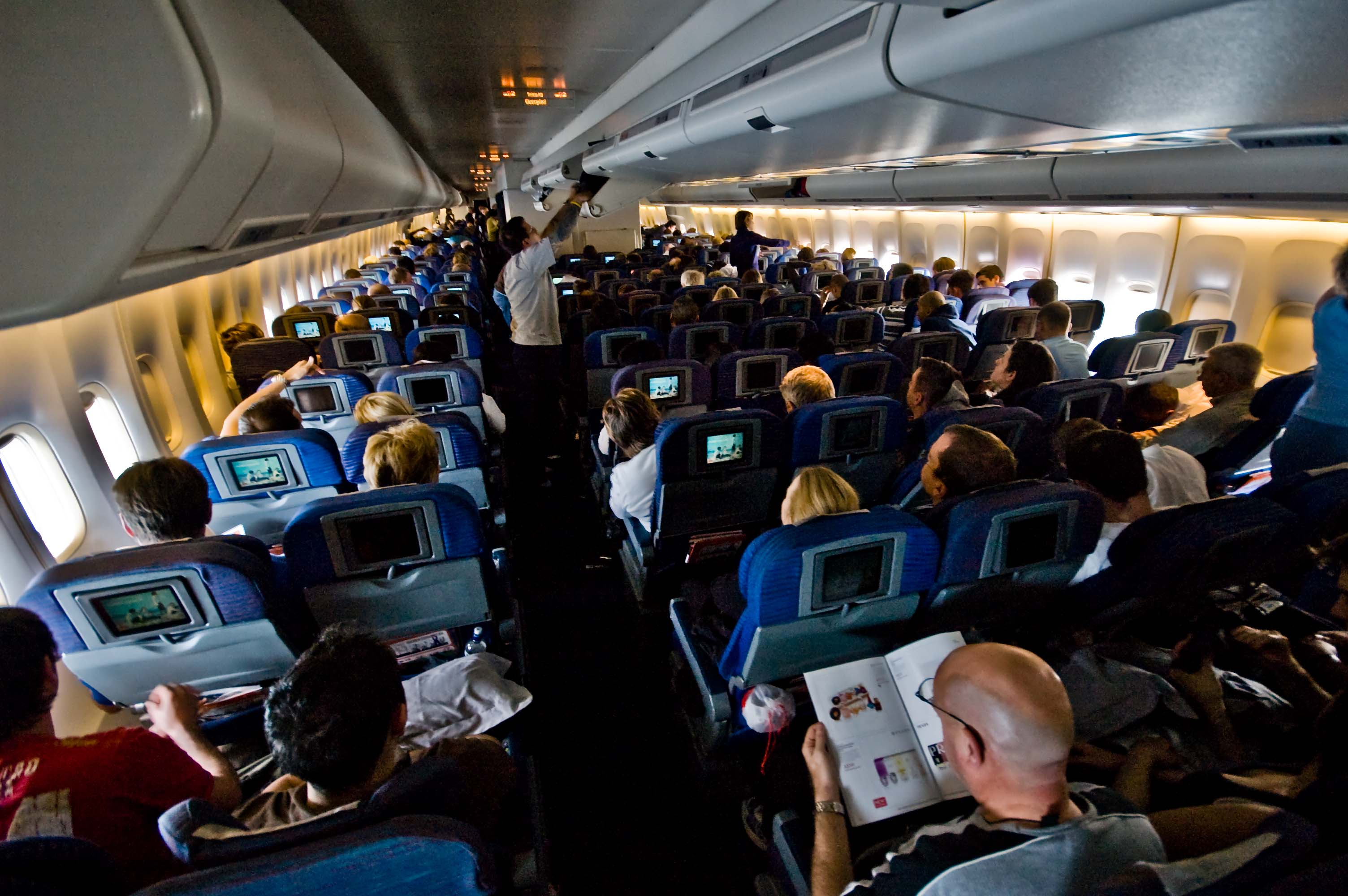 On board Flight QF2 from London Heathrow LHR to Bangkok Suvarnabhumi BKK